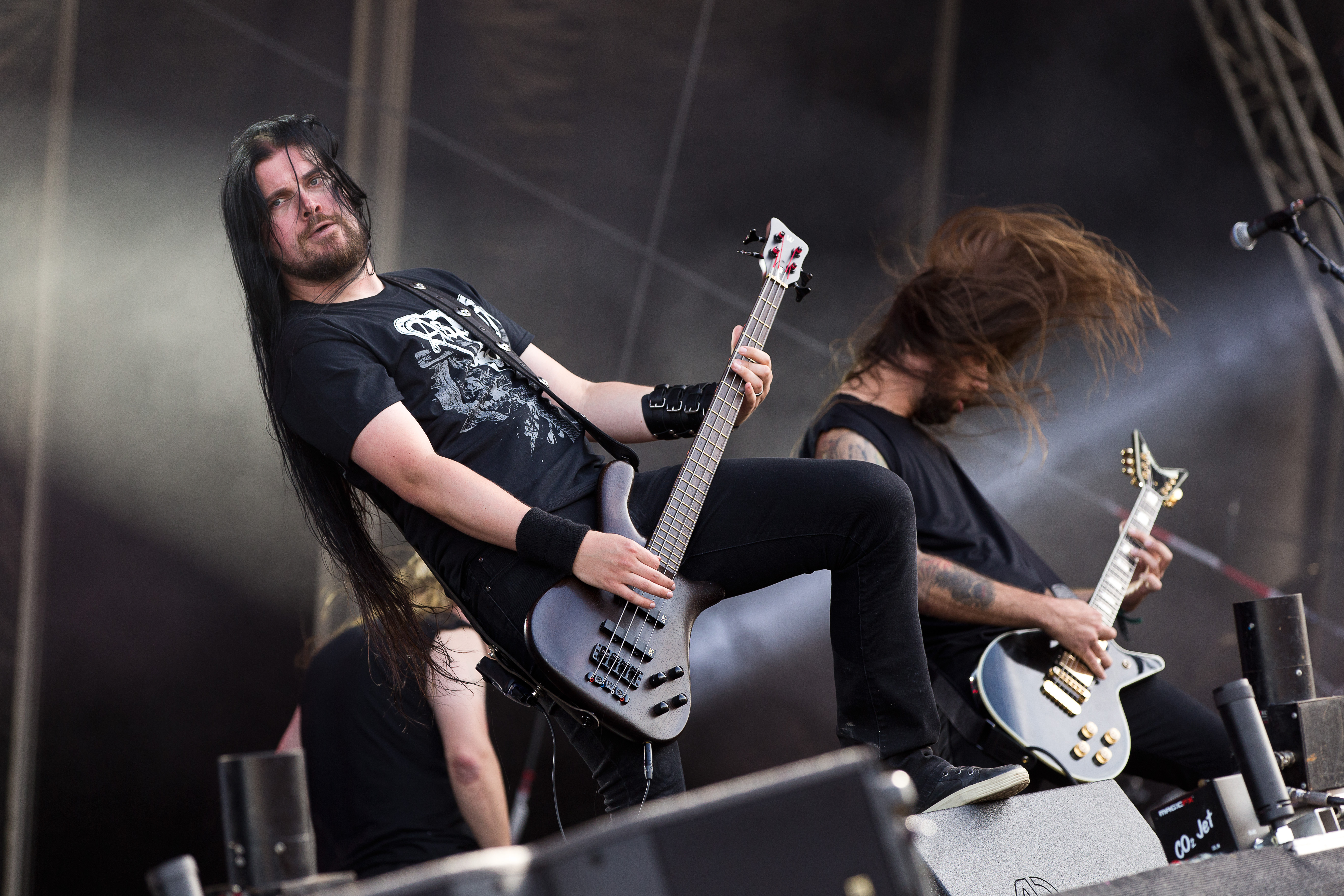 The Swedish death metal band Entombed A.D. at the Rockharz Open Air 2016 in Ballenstedt/Germany.